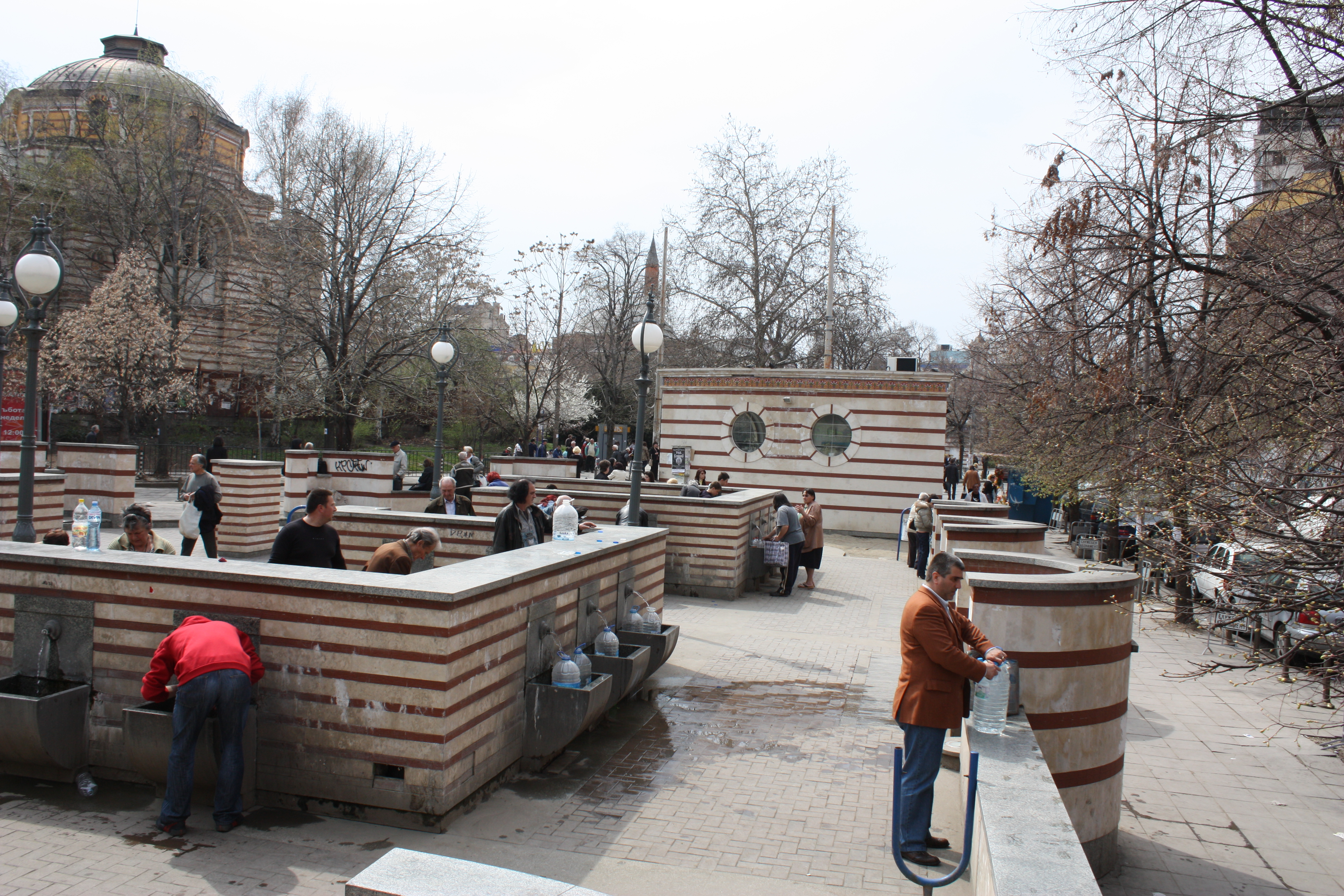 Hot mineral water taps at the side of centalna mineralna banja Sofia, Sofia Public Mineral Baths, Bulgaria, old people get mineral water from there, because it is very healthy for them (they think at least)